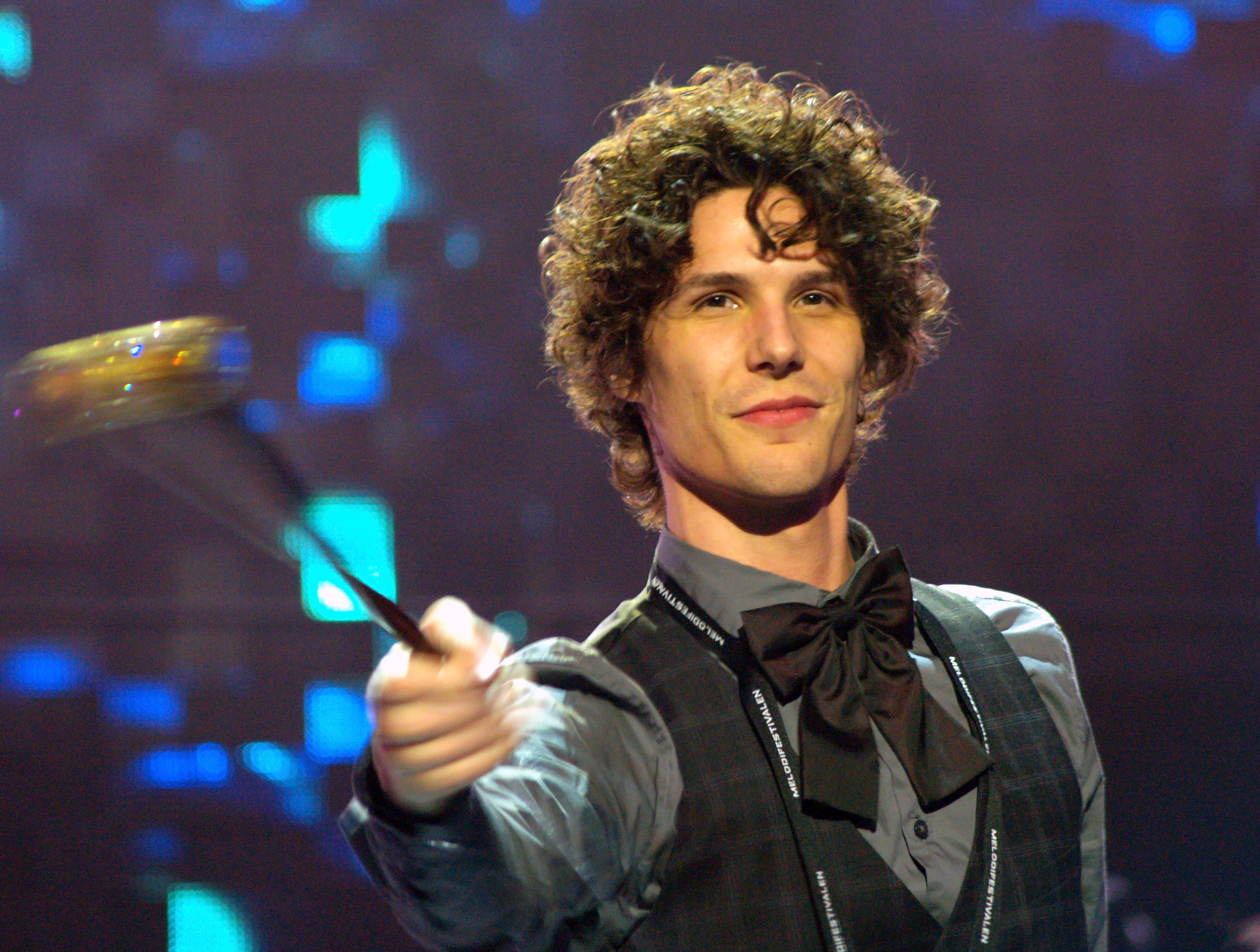 Neo at Melodifestivalen 2010.